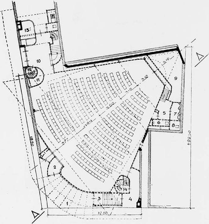 Cineac, Reguliersbreestraat, Amsterdam, plan ground floor.